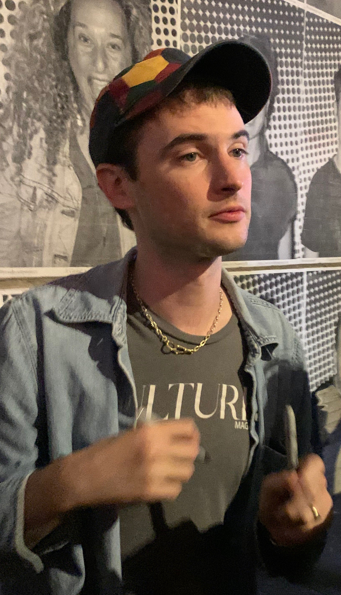 Tom Sturridge after a performance of Sea Wall/A Life